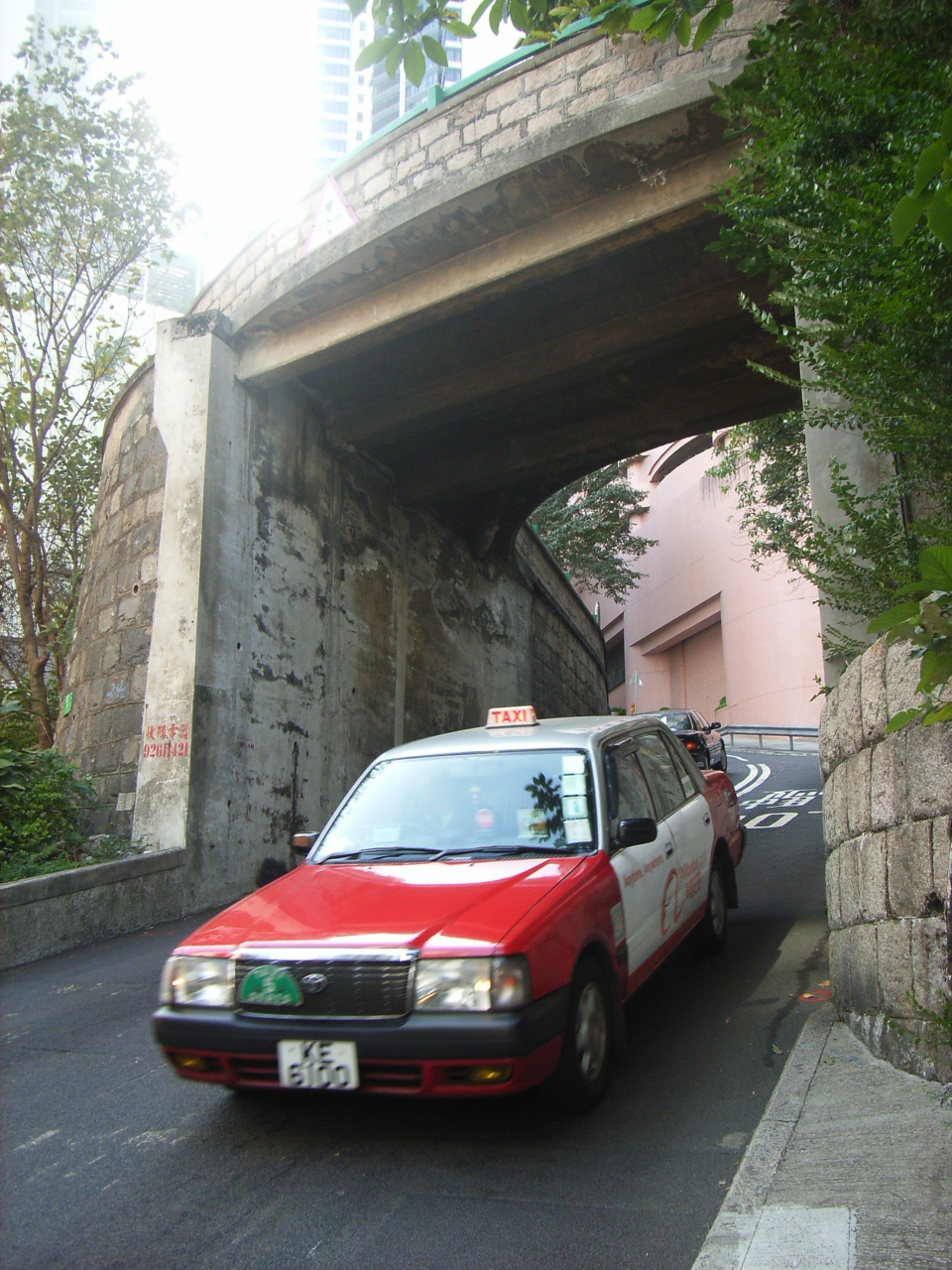 Old Peak Road, Victoria Peak, Hong Kong Photographer and author is ParkerStarS.